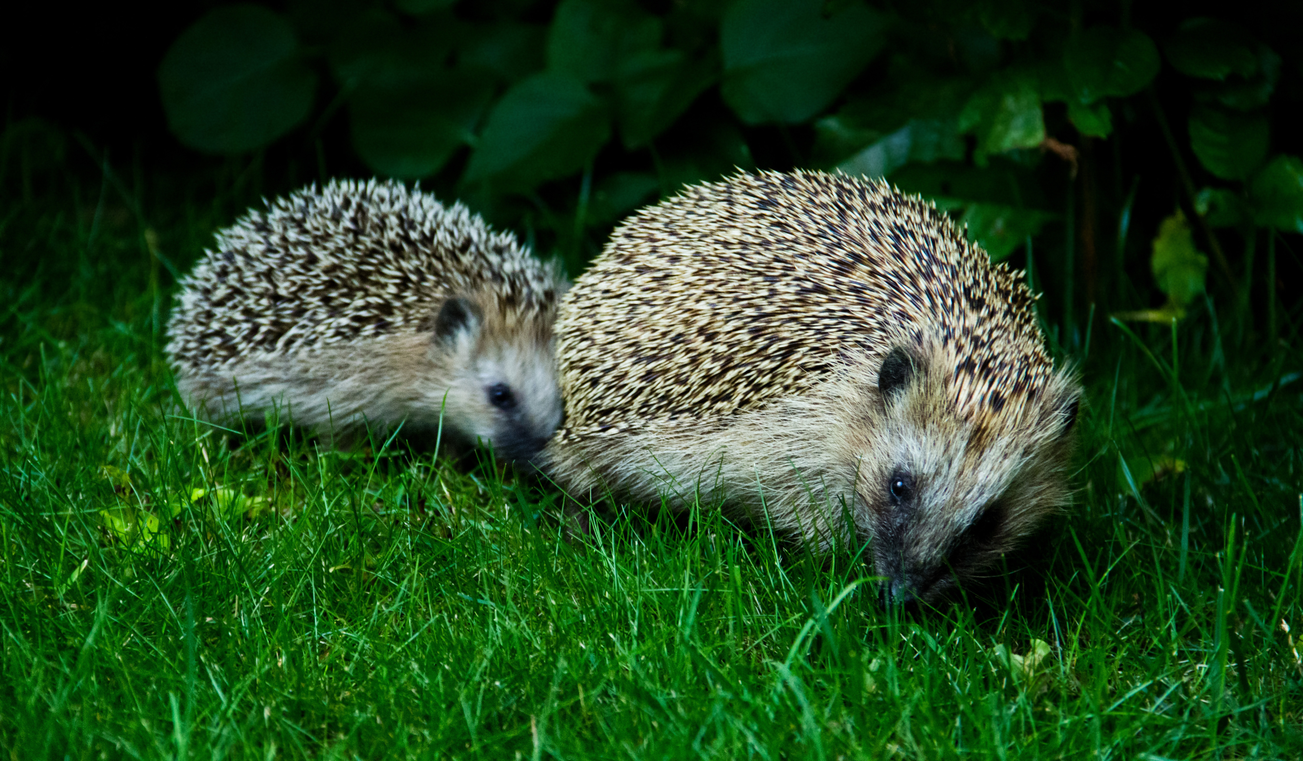 An adult European Hedgehog with her newborn child. The child (to the left) is trying to get to the mother's teats while the mother (to the right) looks into the camera.